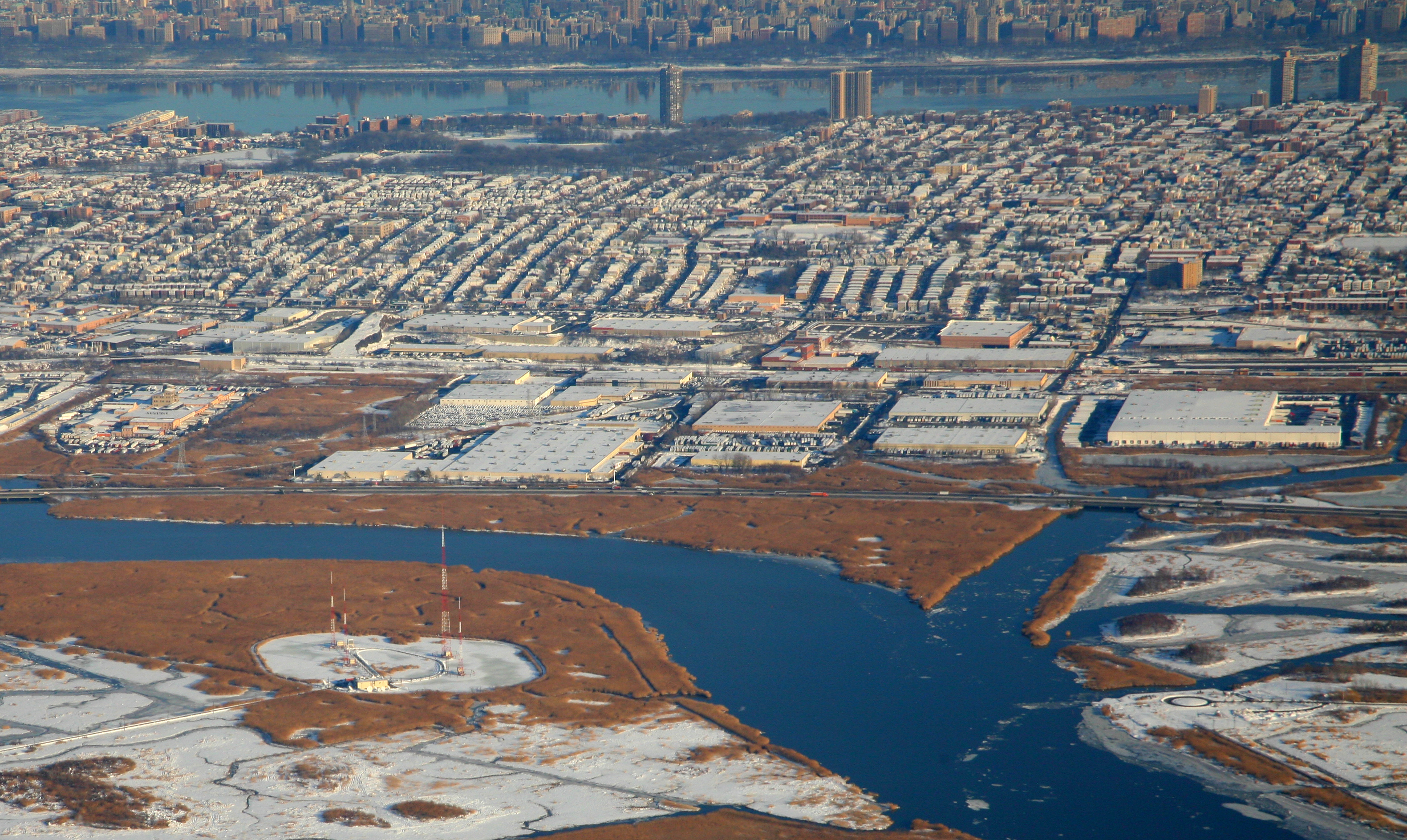 North Bergen, New Jersey looking west from the low-lying Meadowlands at Hackensack River (foreground) to the Palisades overlooking the Hudson River.